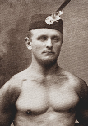 Boštjan Olip (1892 -1918), slovenian soldier and leader of rebelion in Murau.